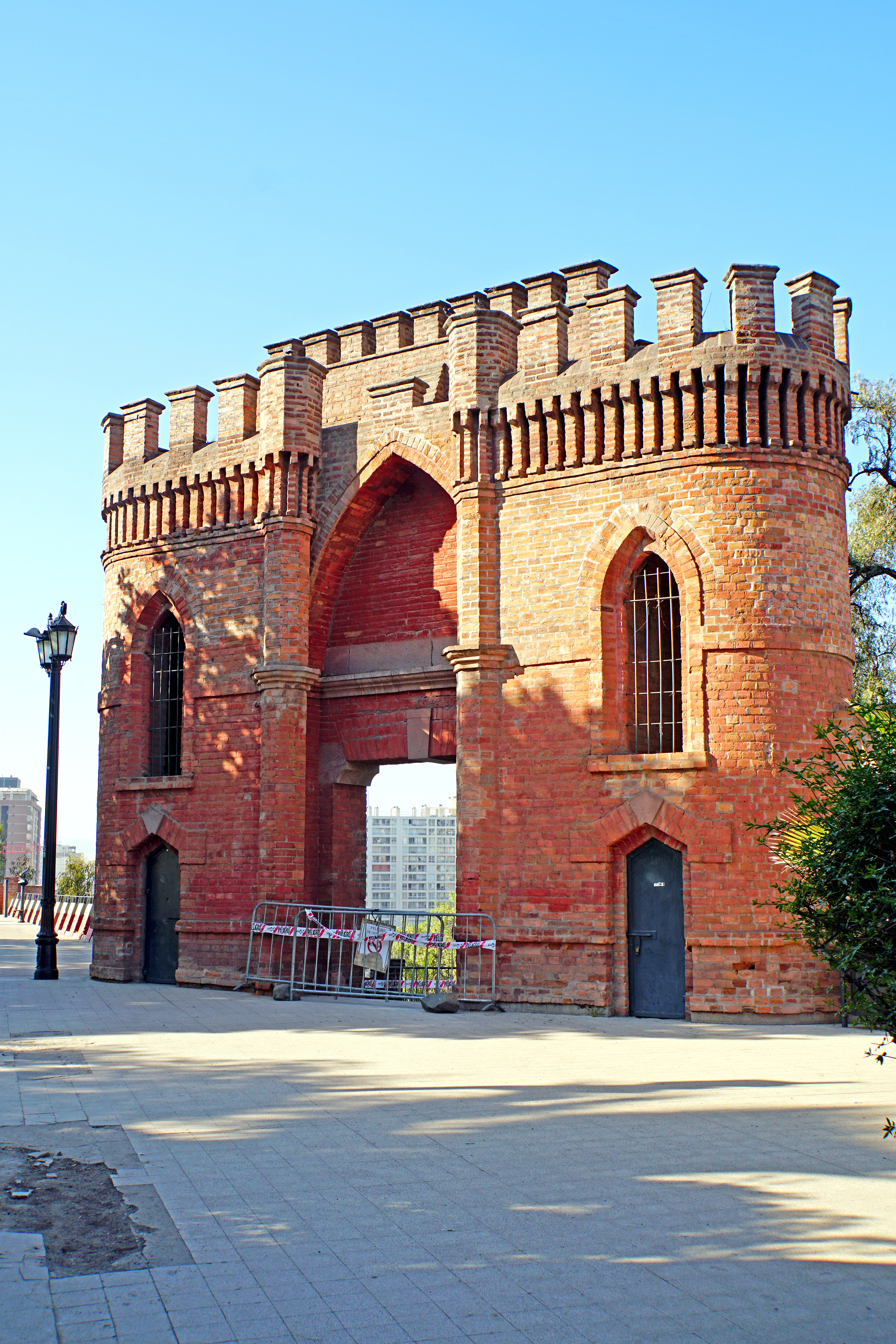 PLEASE, NO invitations or self promotions, THEY WILL BE DELETED. My photos are FREE to use, just give me credit and it would be nice if you let me know, thanks. The Brigadier of the Royal Engineers Manuel Olaguer Feliú, proceeded to draw and build two forts/castles on the Santa Lucía Hill, one north and another south.